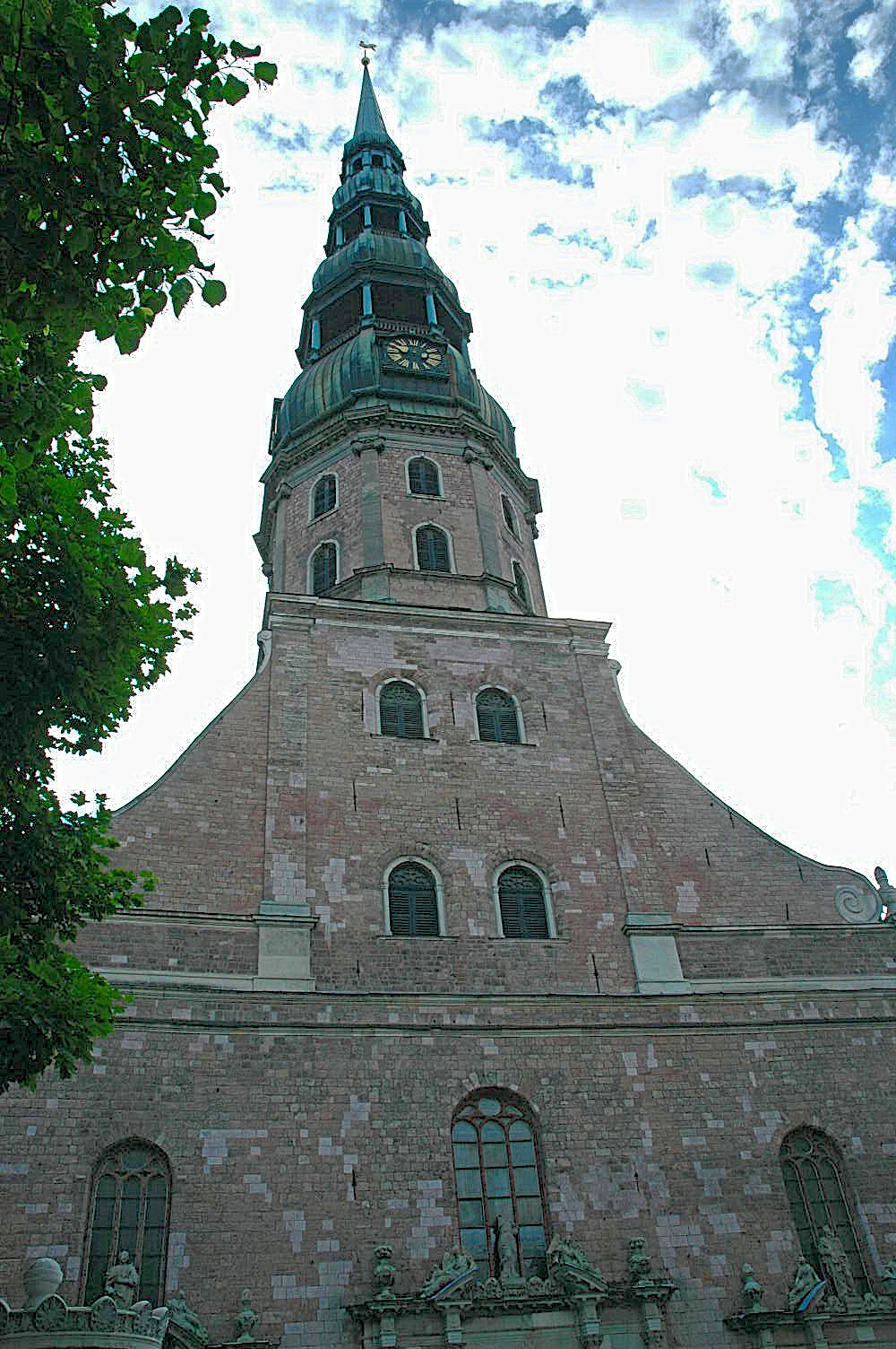 St. Peter's Church, Riga